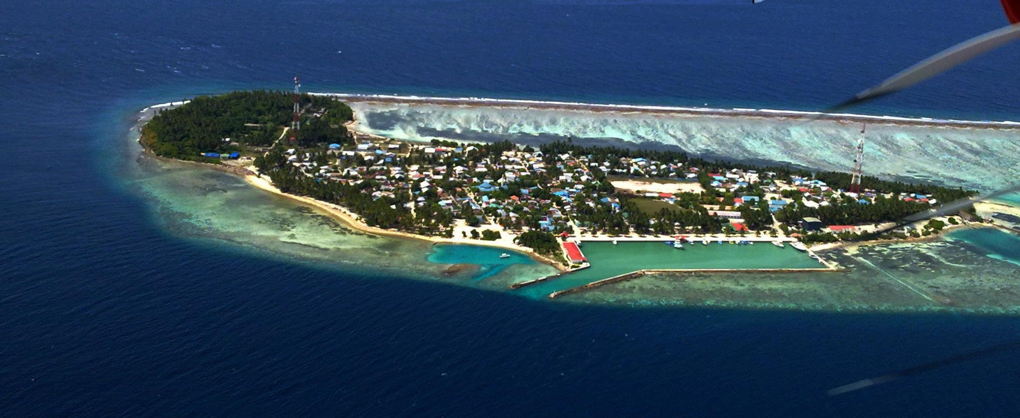 Photo was taken by a Maldivian Air Taxi pilot going over Thaa Guraidhoo